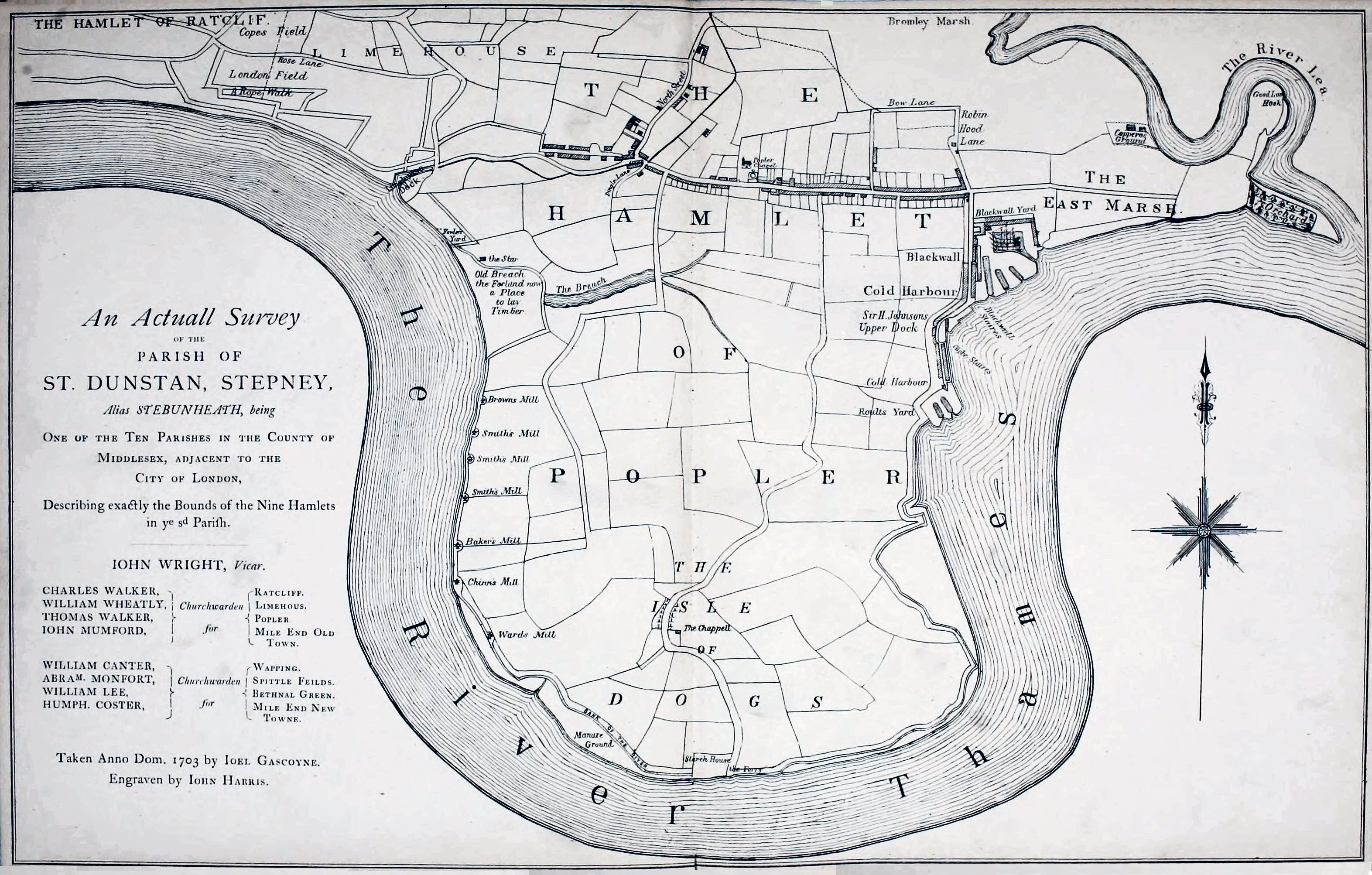 Map of the parish of St Dunstan, stepney, showing the Hamlet of Poplar and the Blackwall dock.